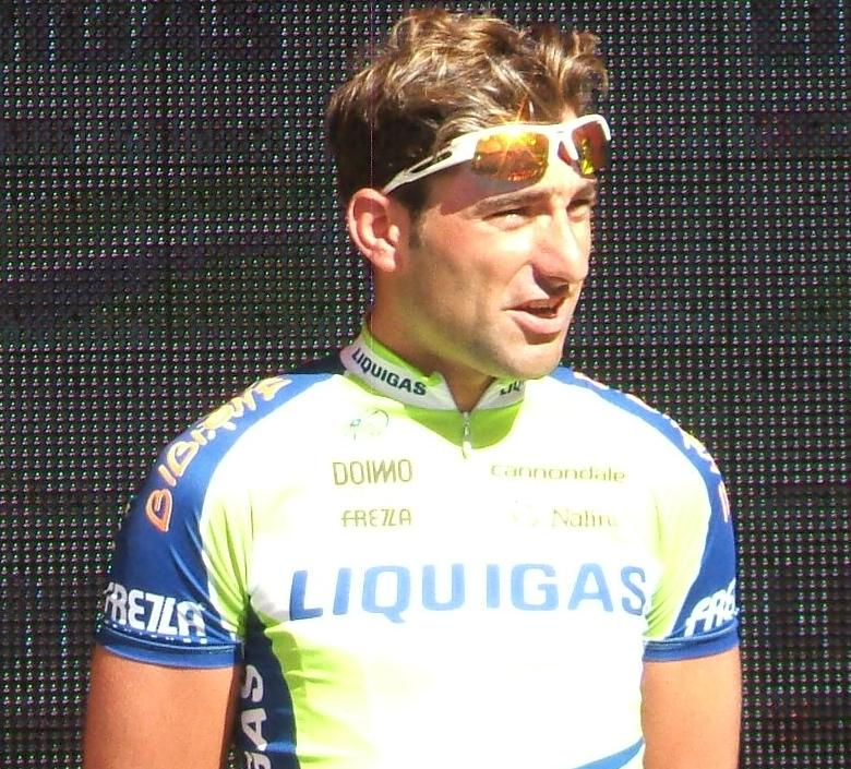 Named cyclist at the en:2009 Tour Down Under team presentation